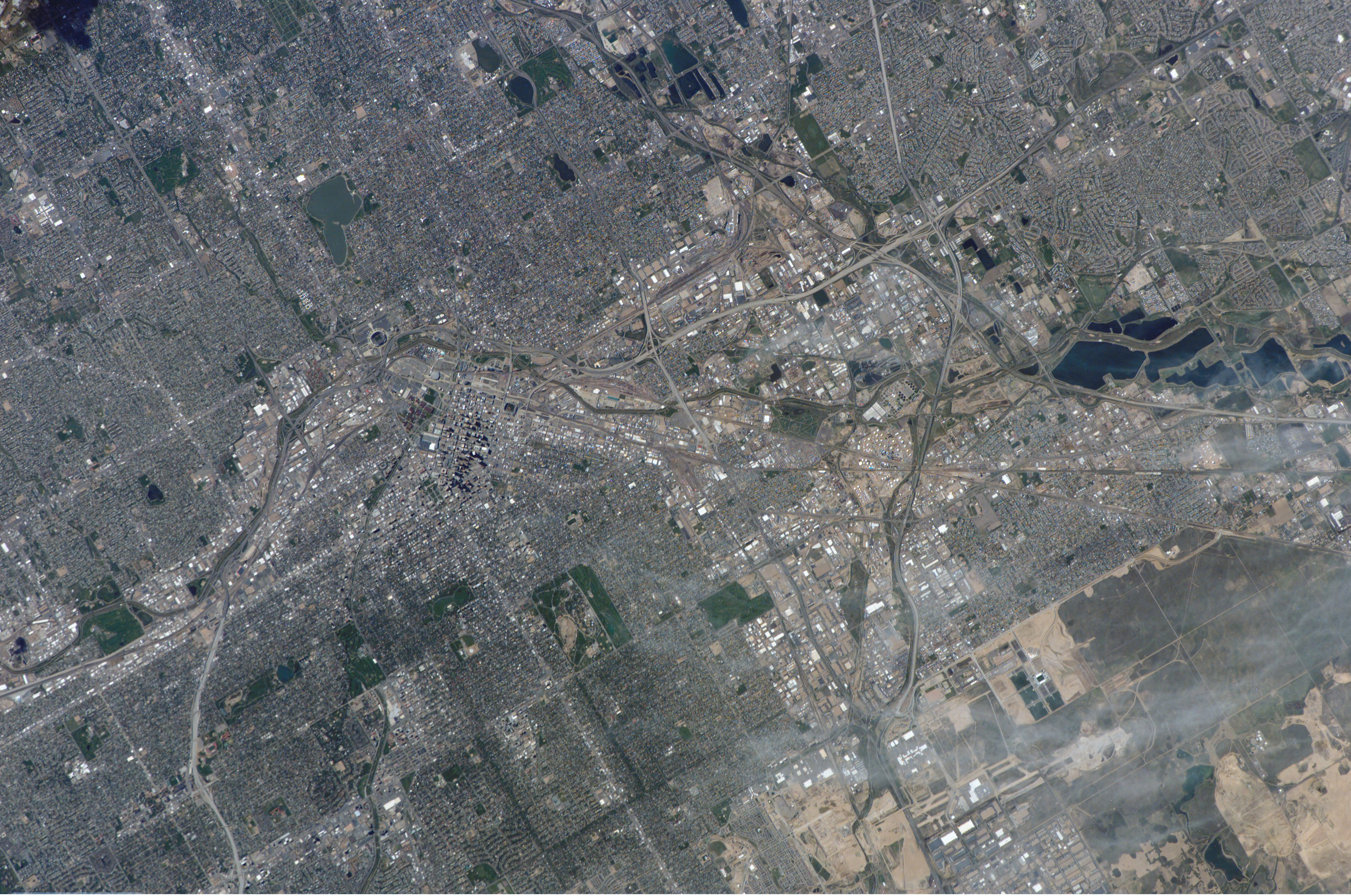 A photo of Denver, Colorado, USA taken from the International Space Station by a NASA astronaut.